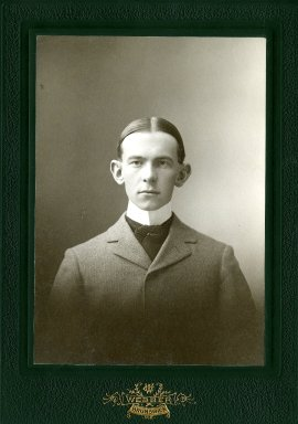 "Leon Brooks Leavitt," albumen carte de visite, by G. B. Webber. 14 cm x 10 cm. Image courtesy of Bowdoin College Library George J. Mitchell Department of Special Collections & Archives, Bowdoin College, Brunswick, Maine.